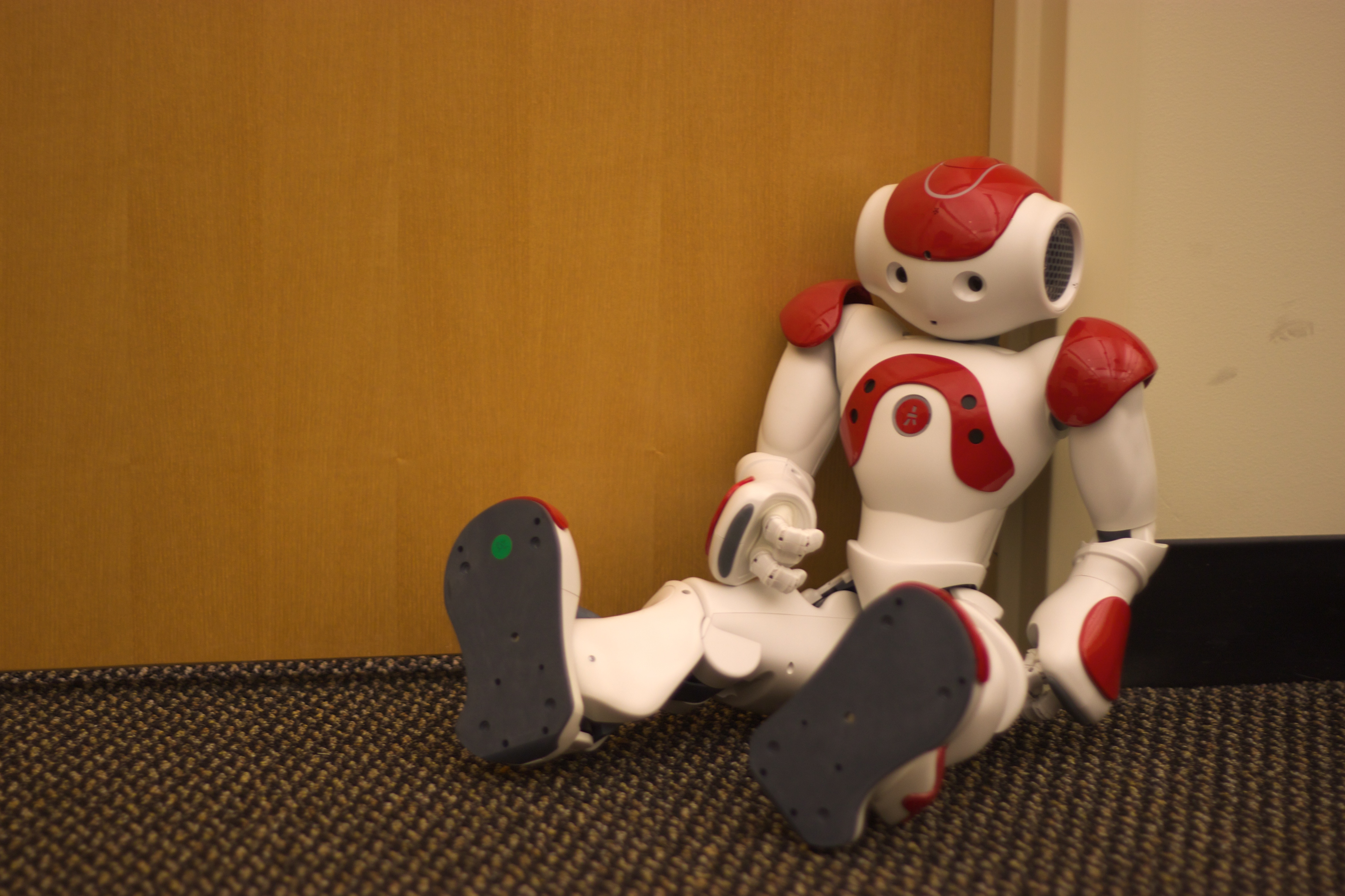 Nao humanoid robot at the Georgia Robotics and Intelligent Systems (GRITS) Lab, Georgia Tech